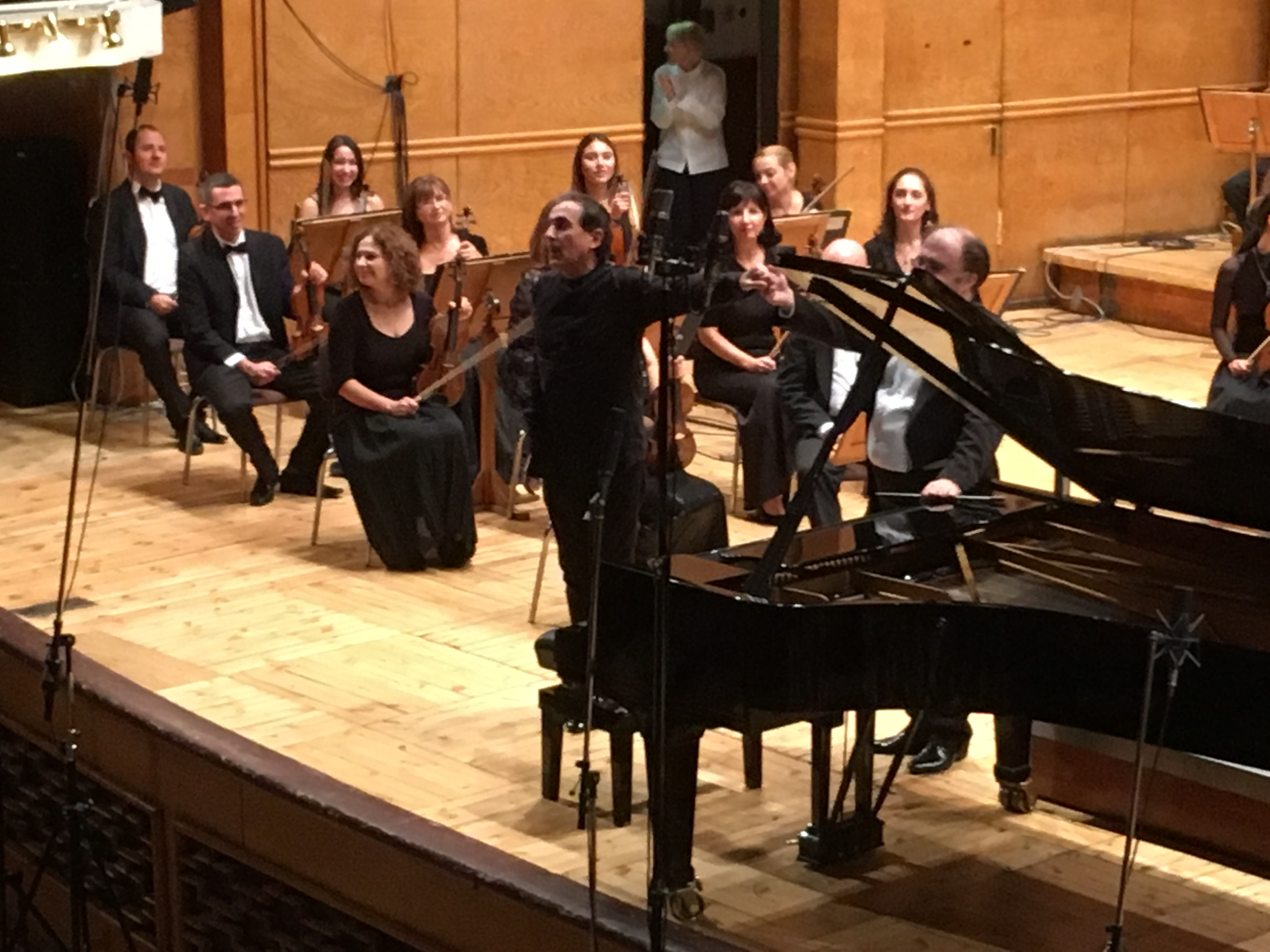 Ludmil Angelov Bulgarian piano player